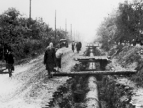 Stroitelstvo vodoprovoda_Ekaterinburg